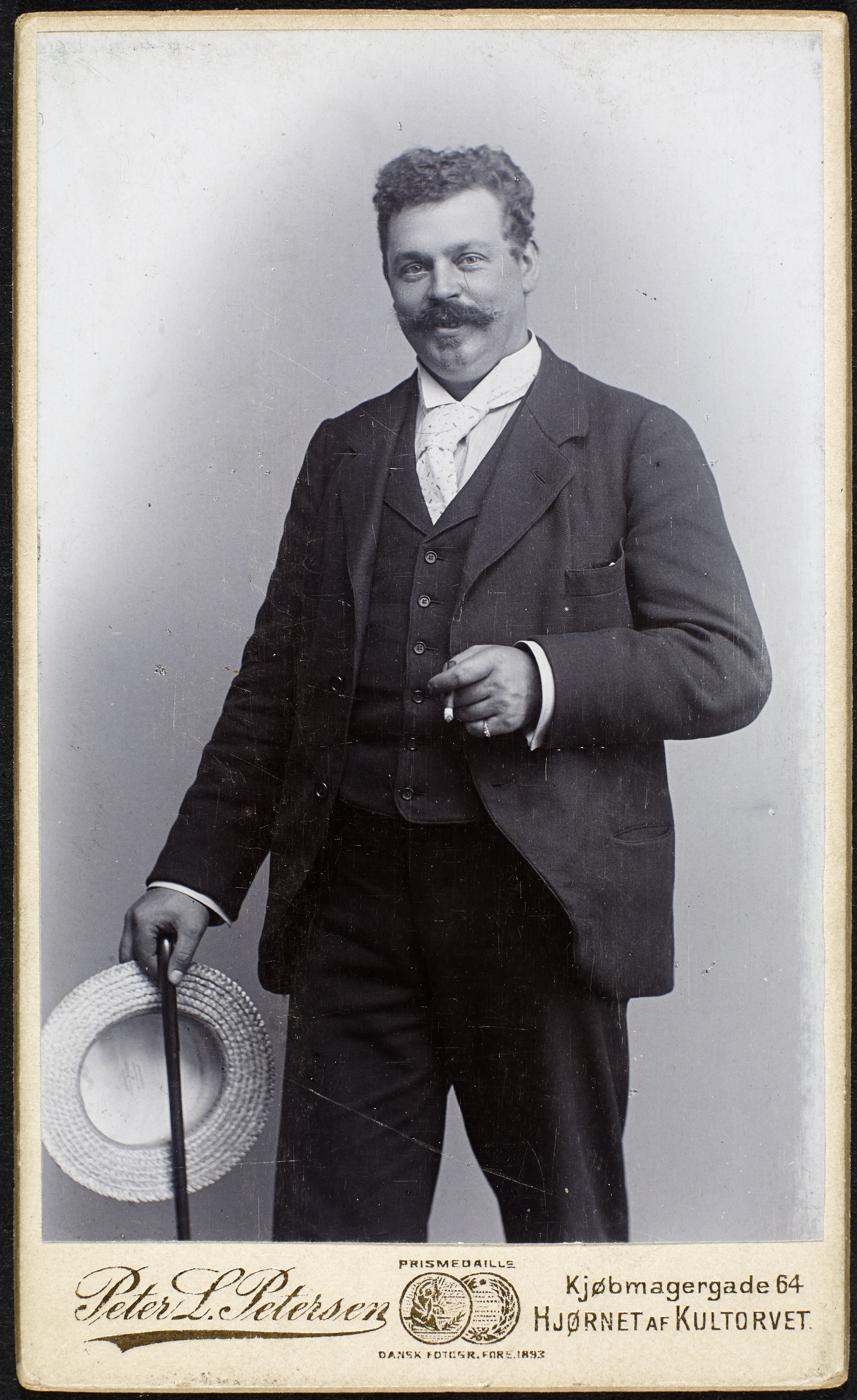 Peter Cornelius (04-01-1865 - 30-12-1934) Danish operasinger Photo dated 1895